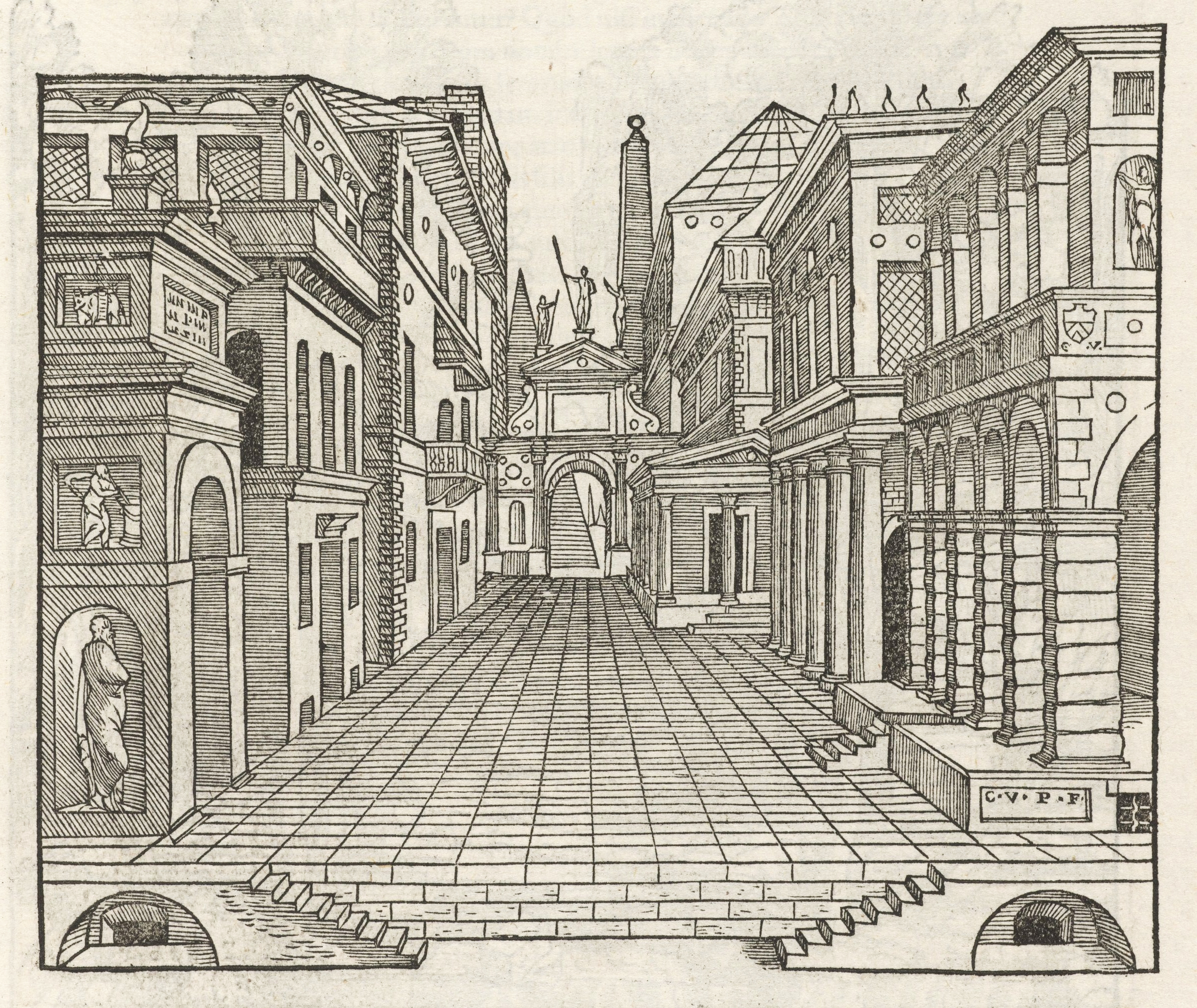 Illustration, page 69, from De architectvra libri qvinqve, 1569, by Sebastiano Serlio (1475-1554). Source notes: "blocks cut by G. Chrieger". Typ 525.69.781, Houghton Library, Harvard University